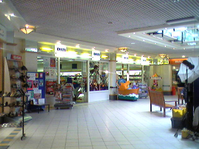 Extrior of a Typical Eason Shop